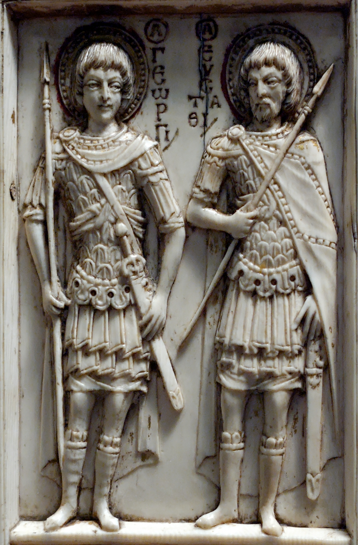 St. George and St. Eustace. Harbaville Triptych: close-up on the top panel of the right leaf, recto.